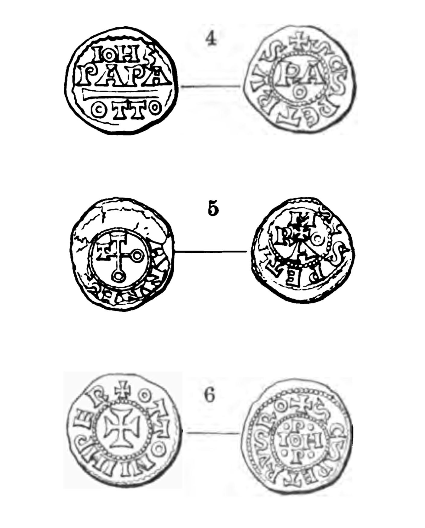 image from "Rivista italiana di numismatica 1890.djvu p. 88 (../92)